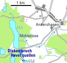 Source of river Havel (Elbe, North Sea) beneath a lake releasing its water to river Peene (Baltic Sea)